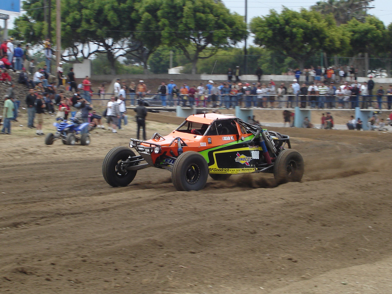 Lobsam Yee in a single seat SCORE Class 10 turning into the Ensenada river at the start of the 2007 Baja 500.